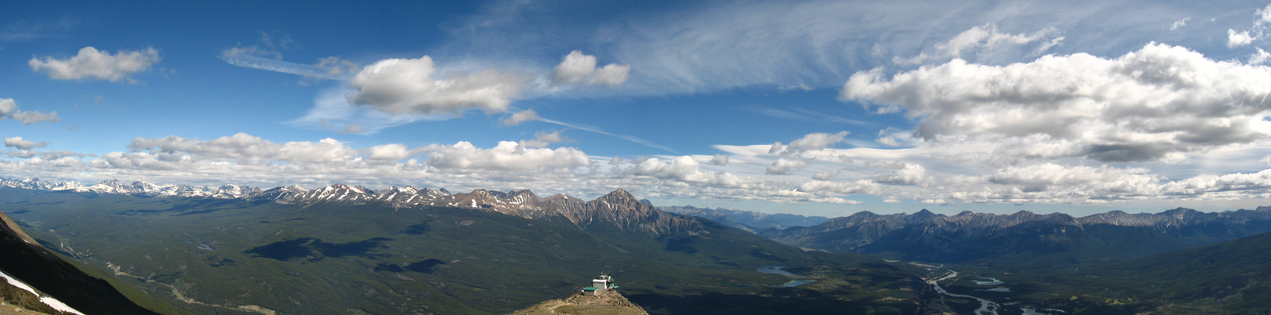 View of Jasper City and surroundings taken from Whistlers Mountain in Jasper National Park in western Alberta.